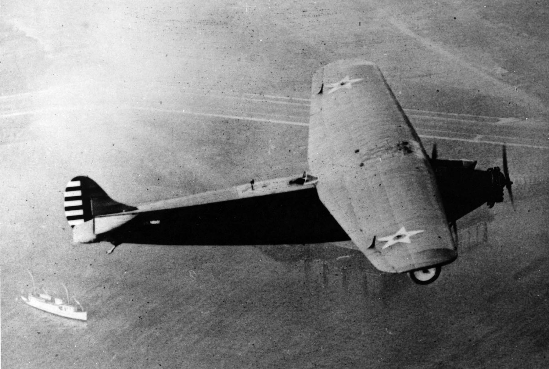 Atlantic-Fokker C-2 Bird of Paradise in flight. (U.S. Air Force photo)